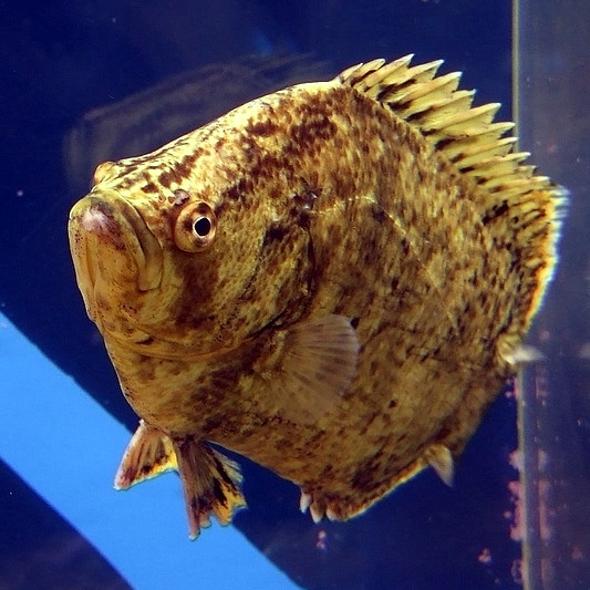 Tripletail Lobotes surinamensis (Bloch, 1790)